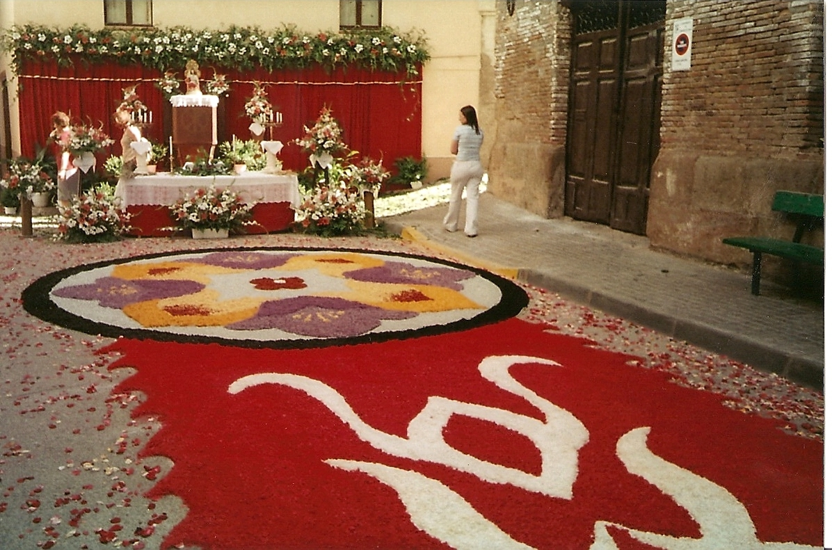 Corpus Christi celebration on Tamarite de Litera. Year 2003. Altar on the street, with lots of flowers. The path done by the saw dust drawings makes a stop here. The procesions follows the path to the altar, where the ofrendas are done, and then it returns to the church throught another street that is also covered with saw dust drawings.